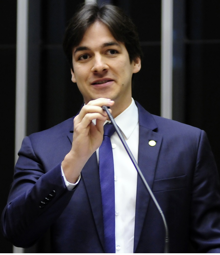 Pedro Cunha Lima em novembro de 2015.